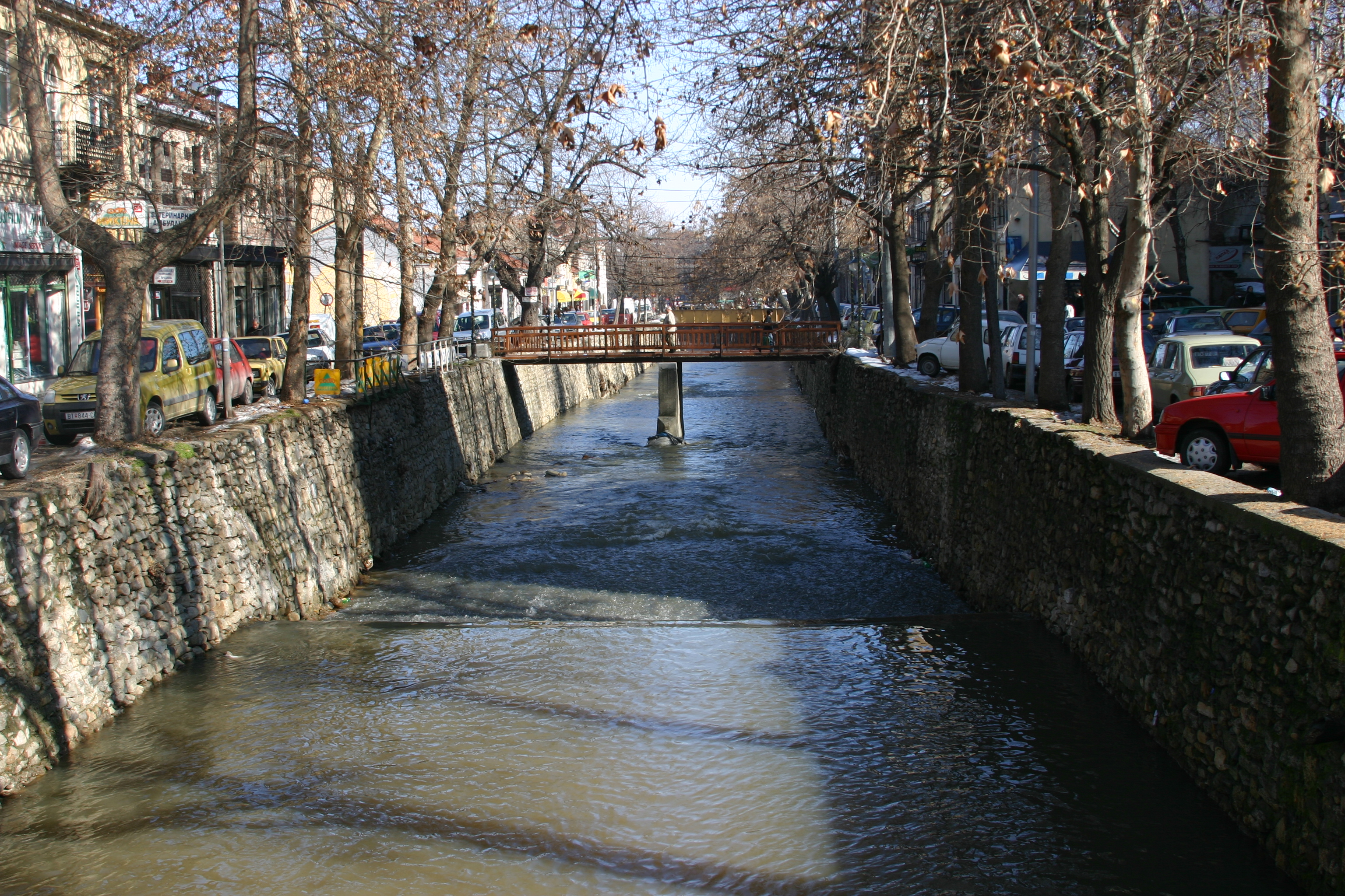 The Dragor river and a bridge for pedestrians.